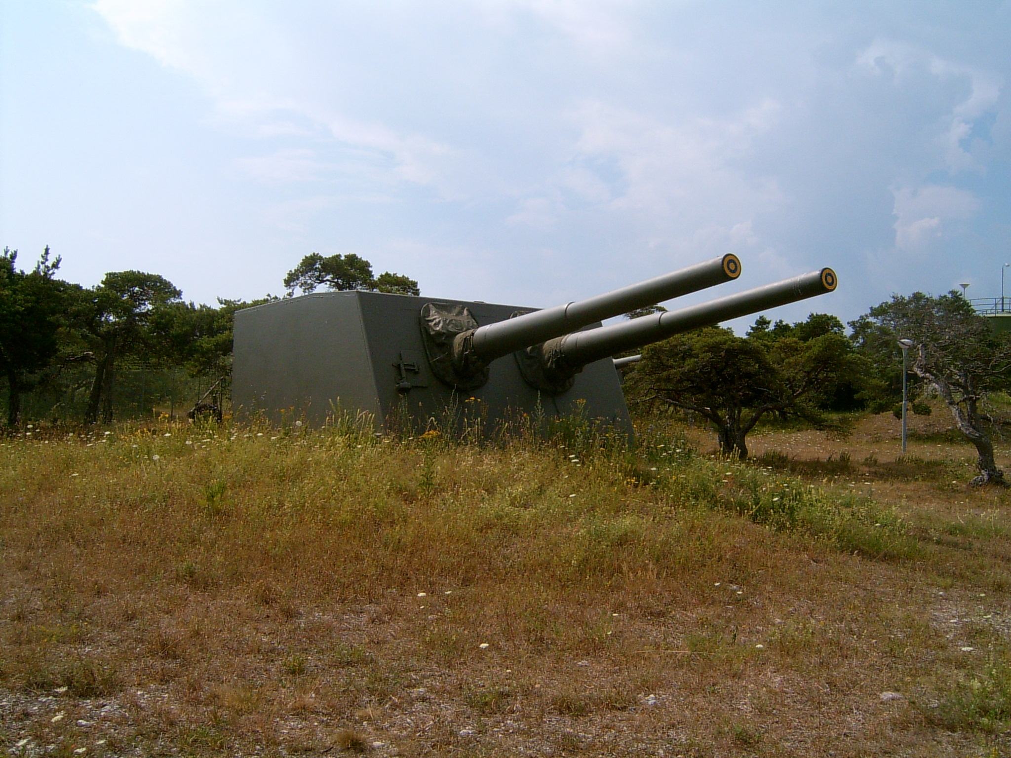 A Swedish artillery called 15,2 cm Kustartilleripjäs M/51 in Fårösund, northern Gotland, Sweden.